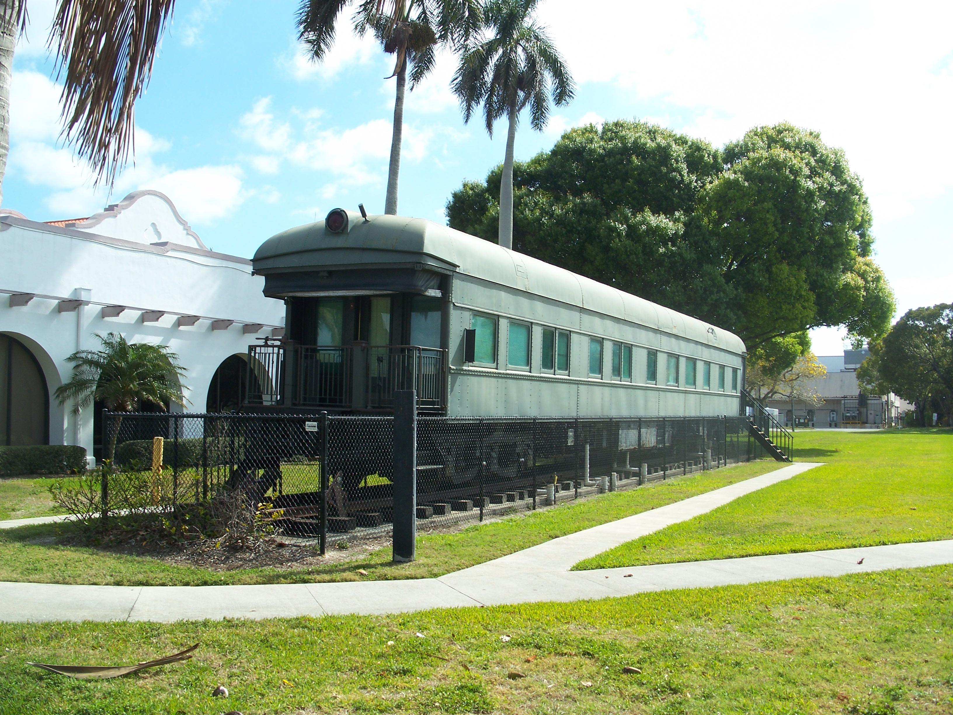 Fort Myers, Florida: Train outside the history museum.